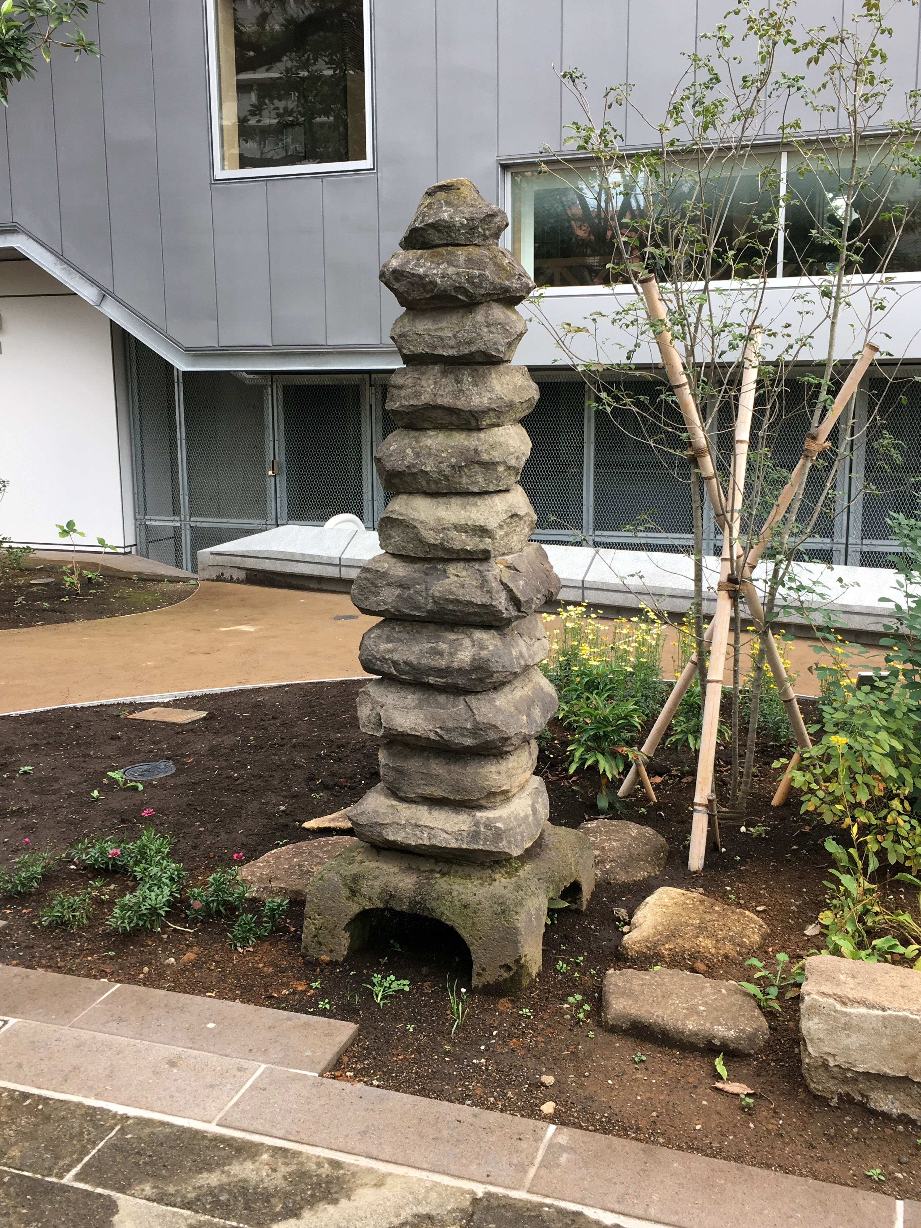 Nekozuka (Tomb of pets of Natsume Soseki)